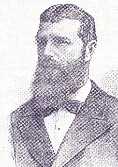 Radoslav Lopašić (1835-1893), Historian from Croatia